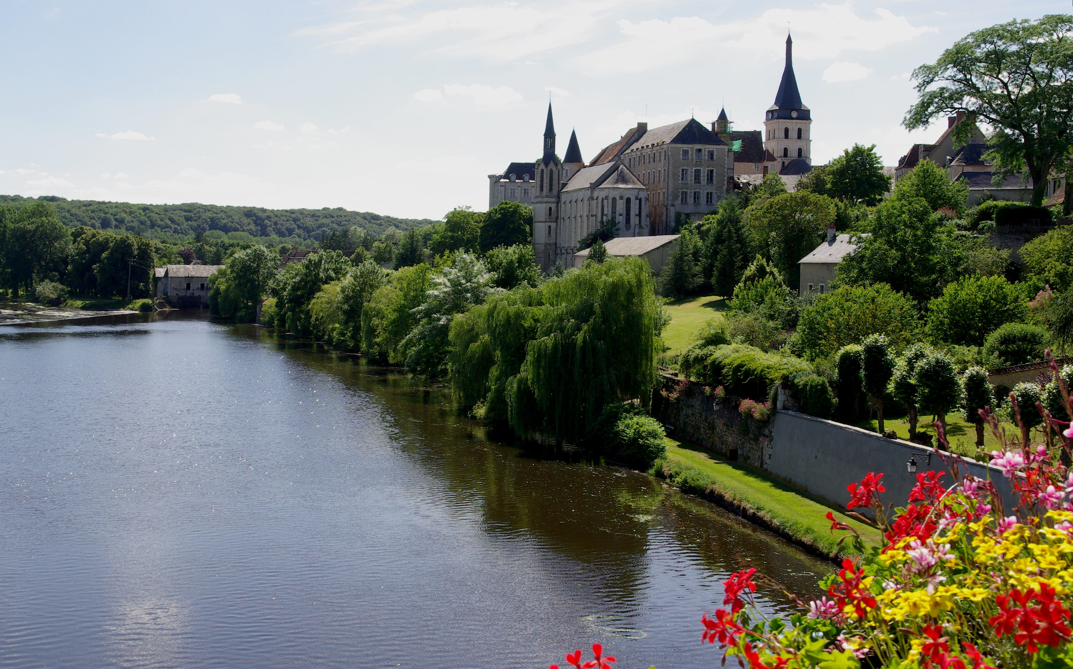 The Creuse river in Saint Gaultier Indre 36 France